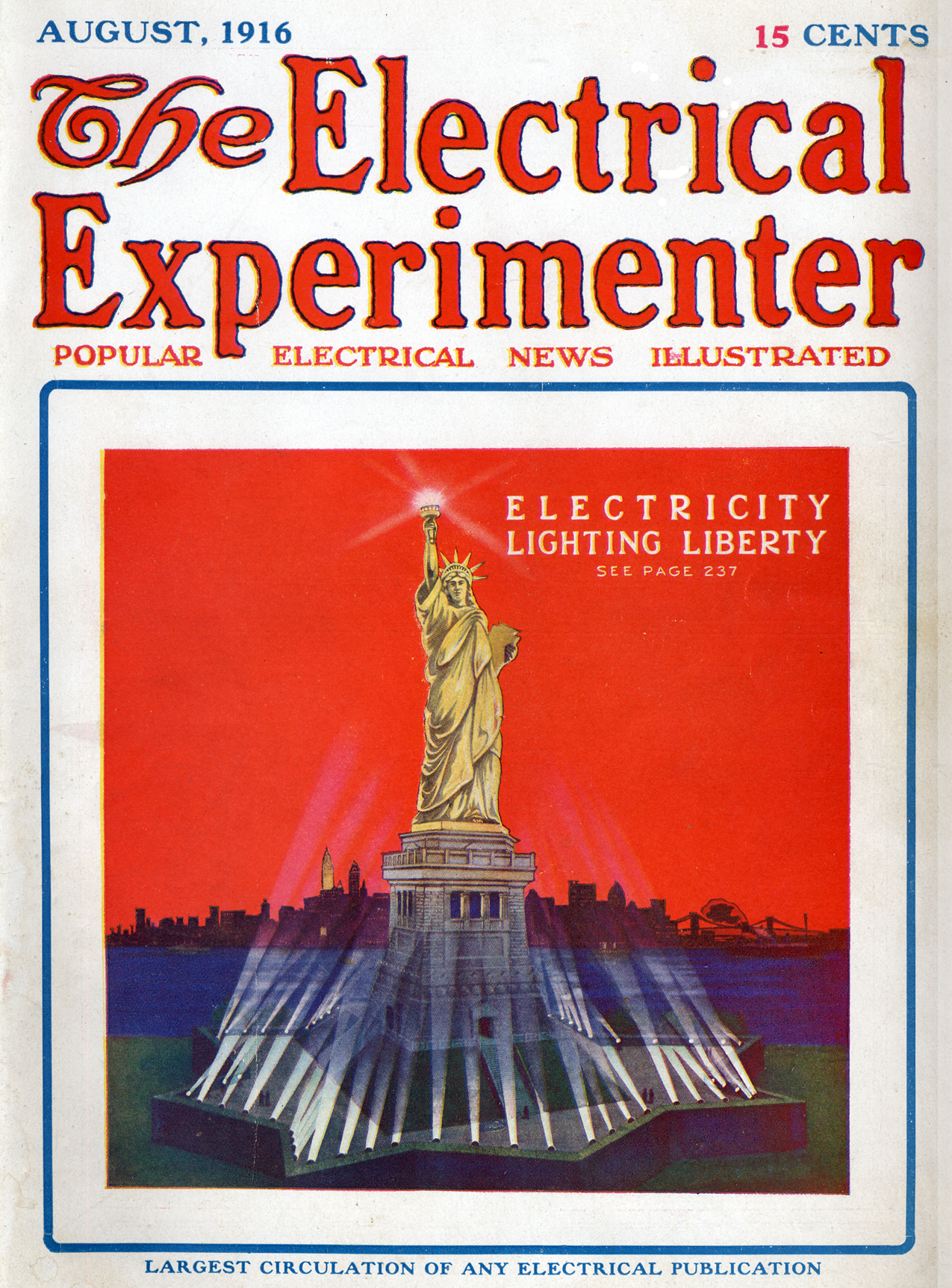 The Electrical Experimenter, August 1916. Volume 4 Number 4. The cover illustrates how the Statue of Liberty will be lighted. The Federal Government will purchase an illuminating plant for $30,000. The lights will be purchased with donations from private parties. See page 237 Image:Electrical Experimenter Aug 1916 pg237.png The first issue of The Electrical Experimenter was May 1913. In June 1918 Science and Inventions was added as a sub-title and in August 1920 Science and Inventions became the full title. The last issue was August 1931.